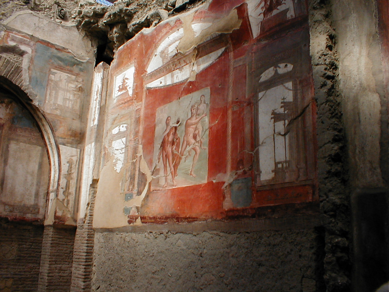 Hall of the Augustals (Herculaneum) - This fresco depicts Hercules with Acheloo.